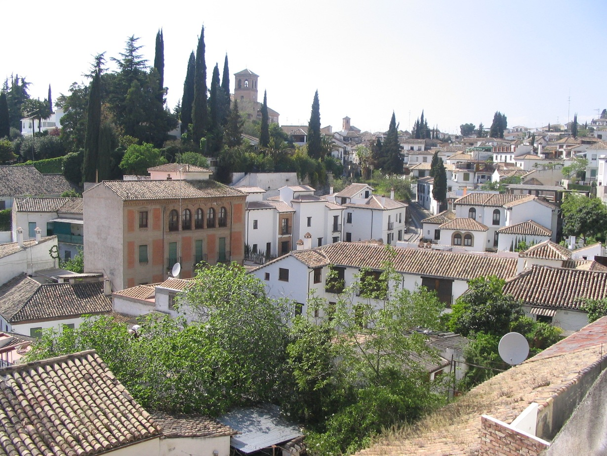 Albaicín, Granada (Spain)